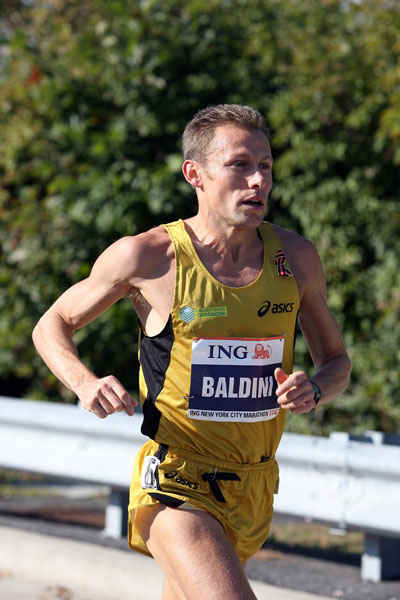 Stefano Baldini New York City Marathon